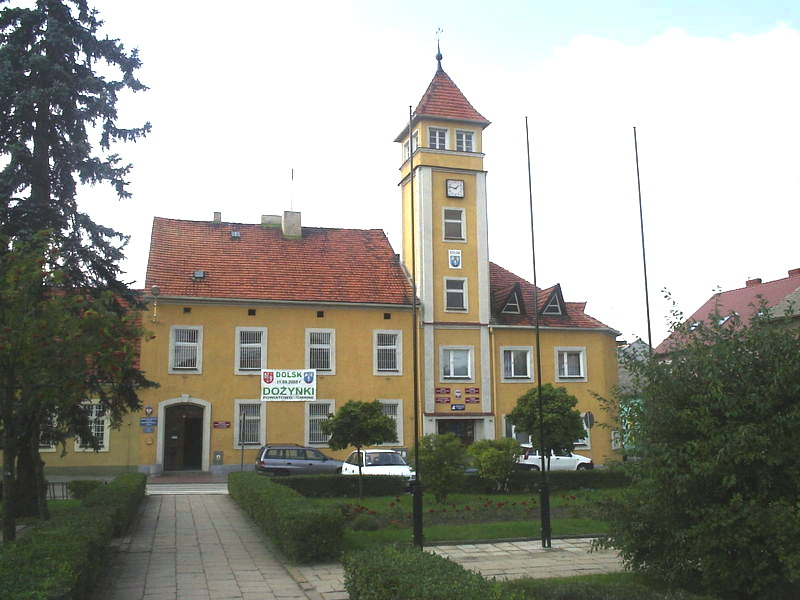 Town Hall in Dolsk, Poland